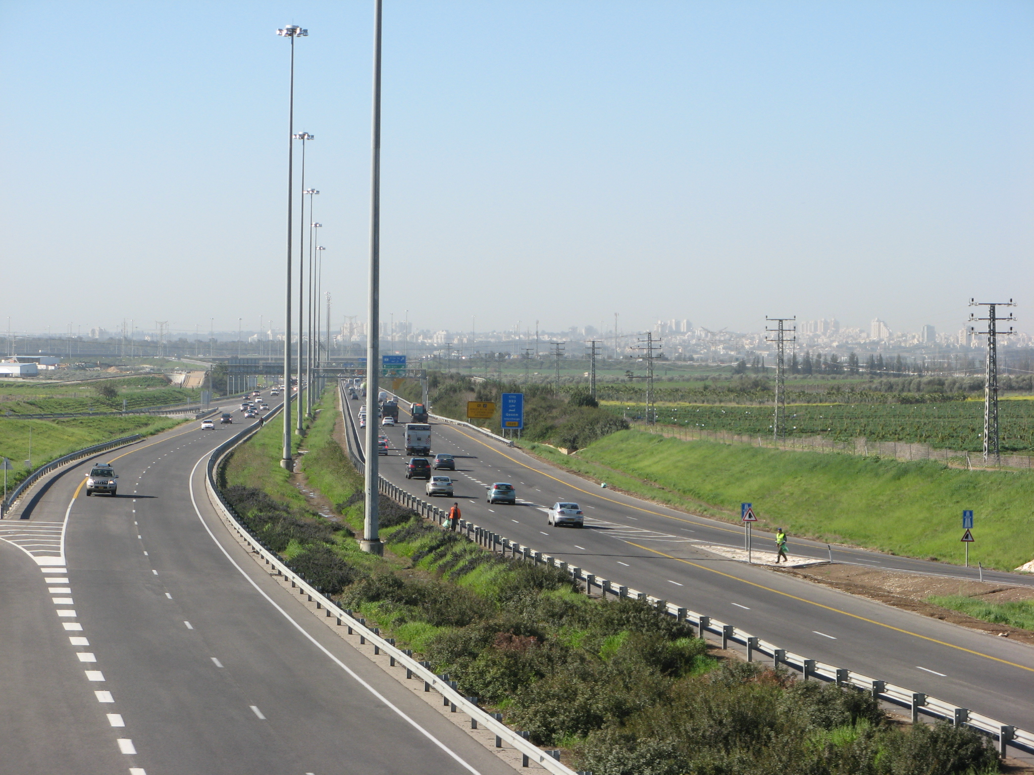 Road 6 in Israel from the Horashim junction